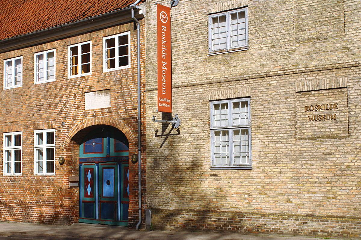 Roskilde Museum in Roskilde, Denmark